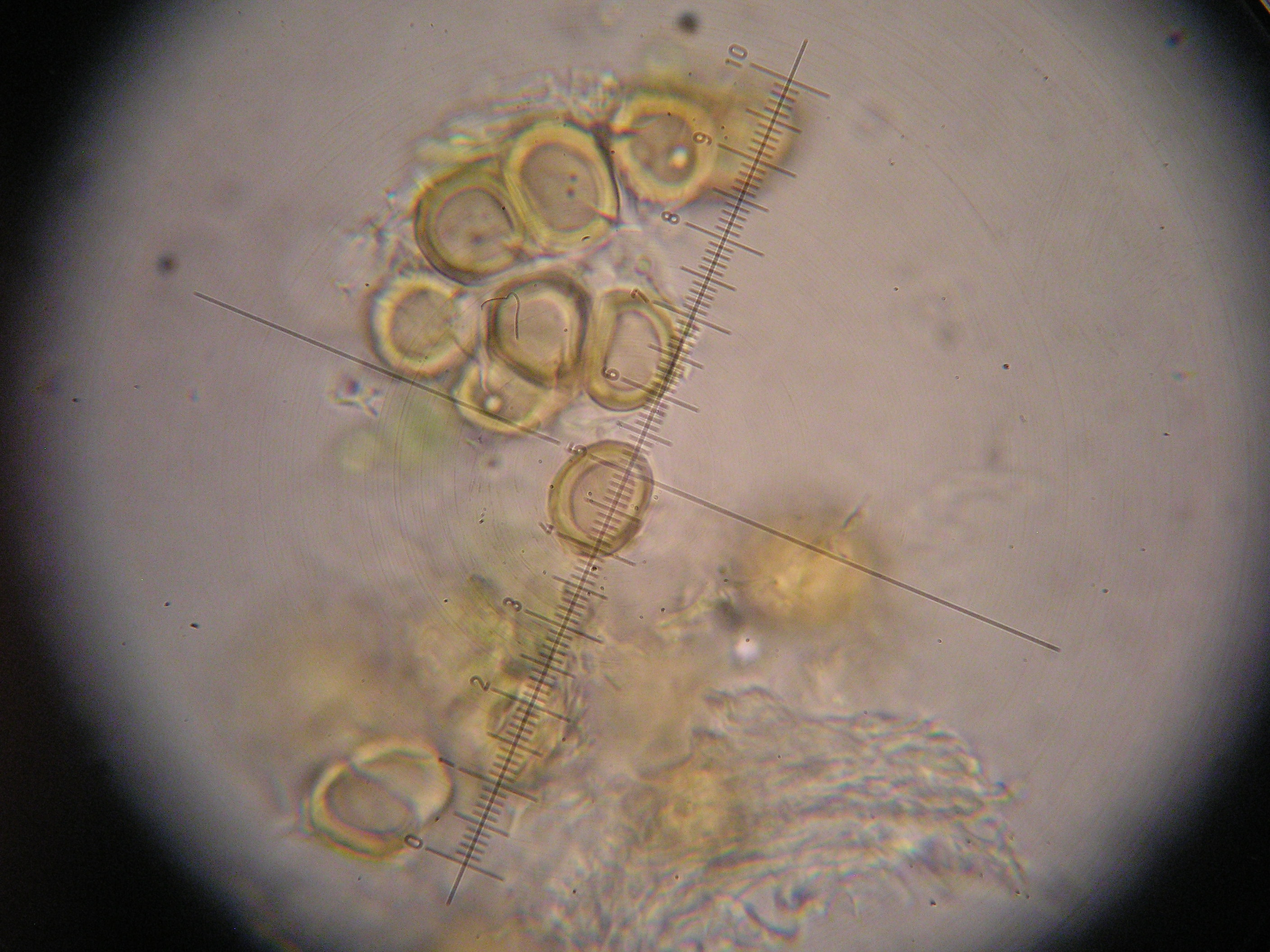 Cosmos bipinnatus infected by Entyloma cosmi